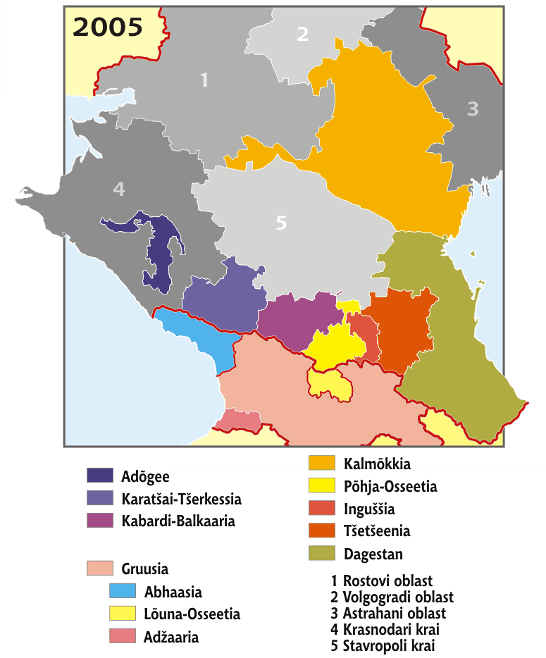 Administrative divisions of North Caucasus in 2005, legend in Estonian.